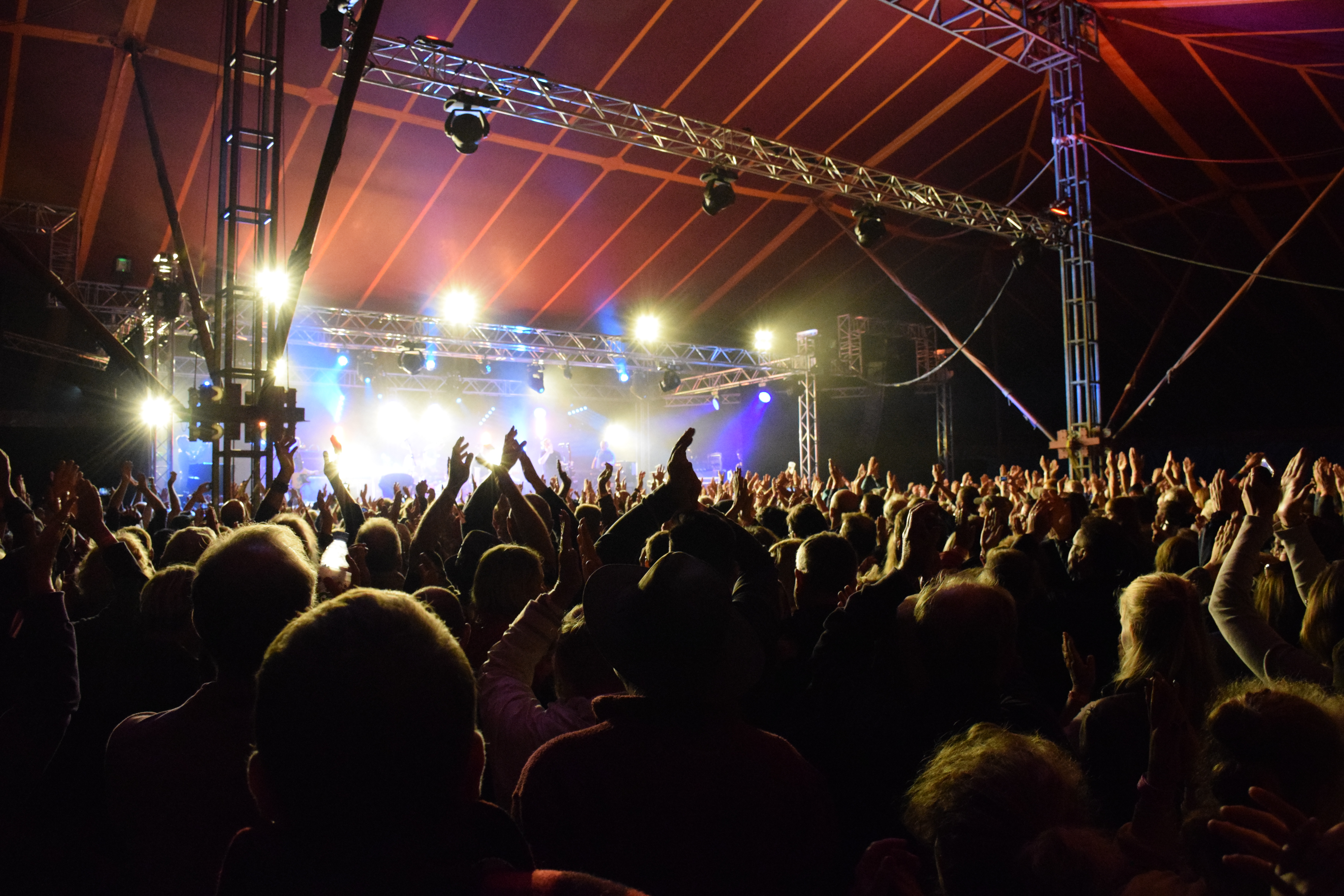 Crowd of people watching The Proclaimers at Towersey Festival, 2018